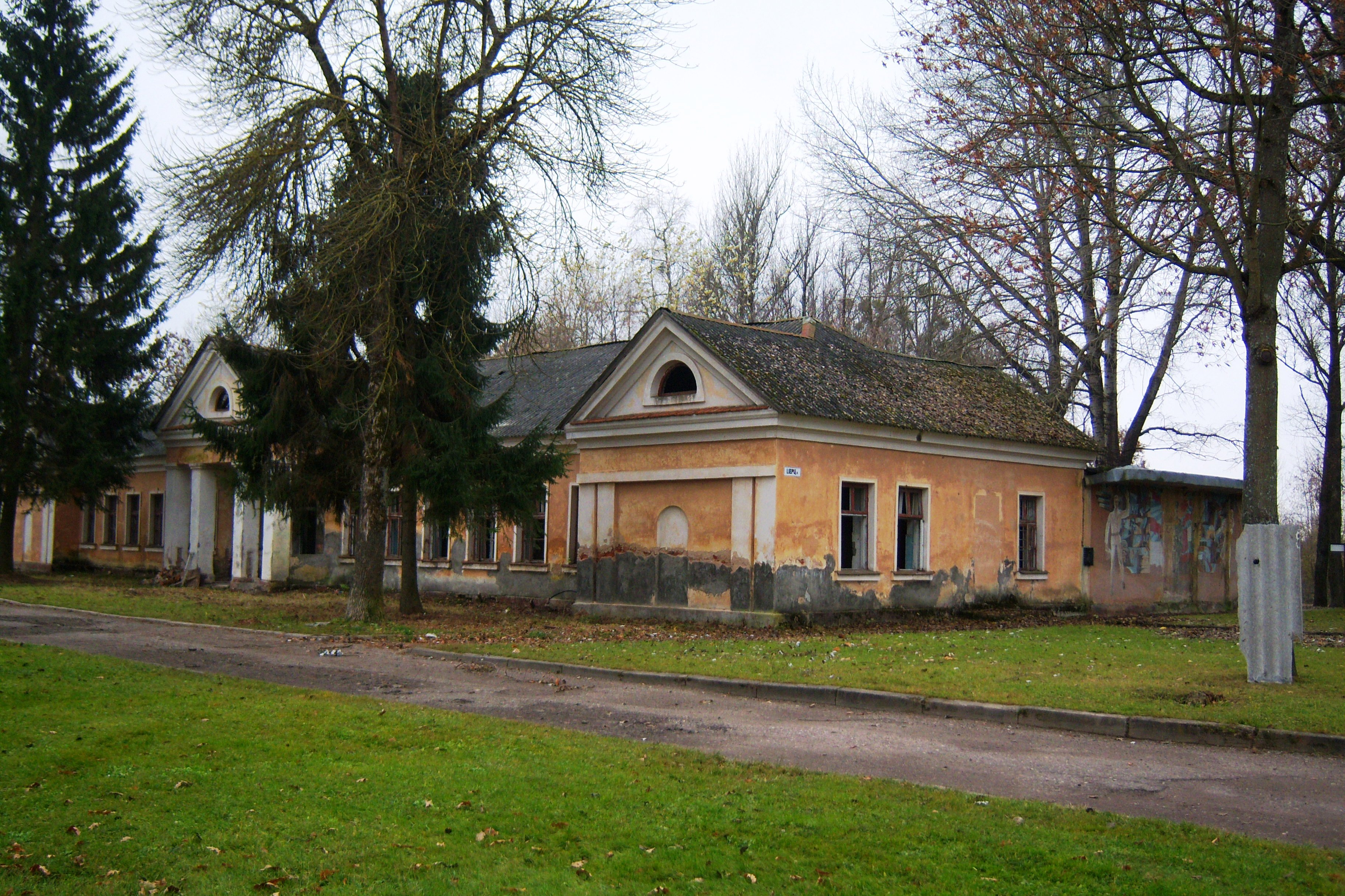 The former manor in Linksmakalnis, Kaunas District. Lithuania